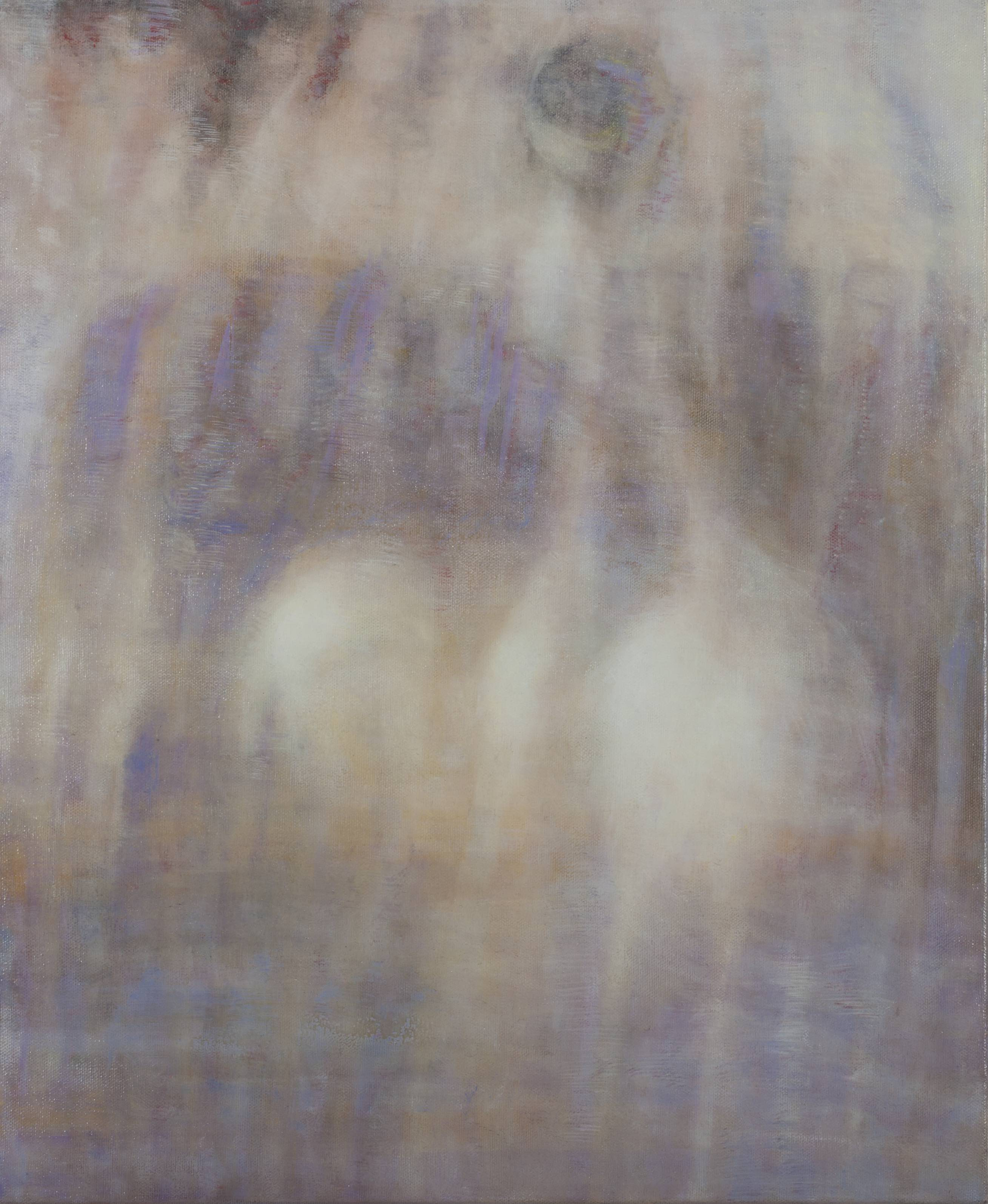 Oil paintimg by bracha L. Ettinger, 2006-2012